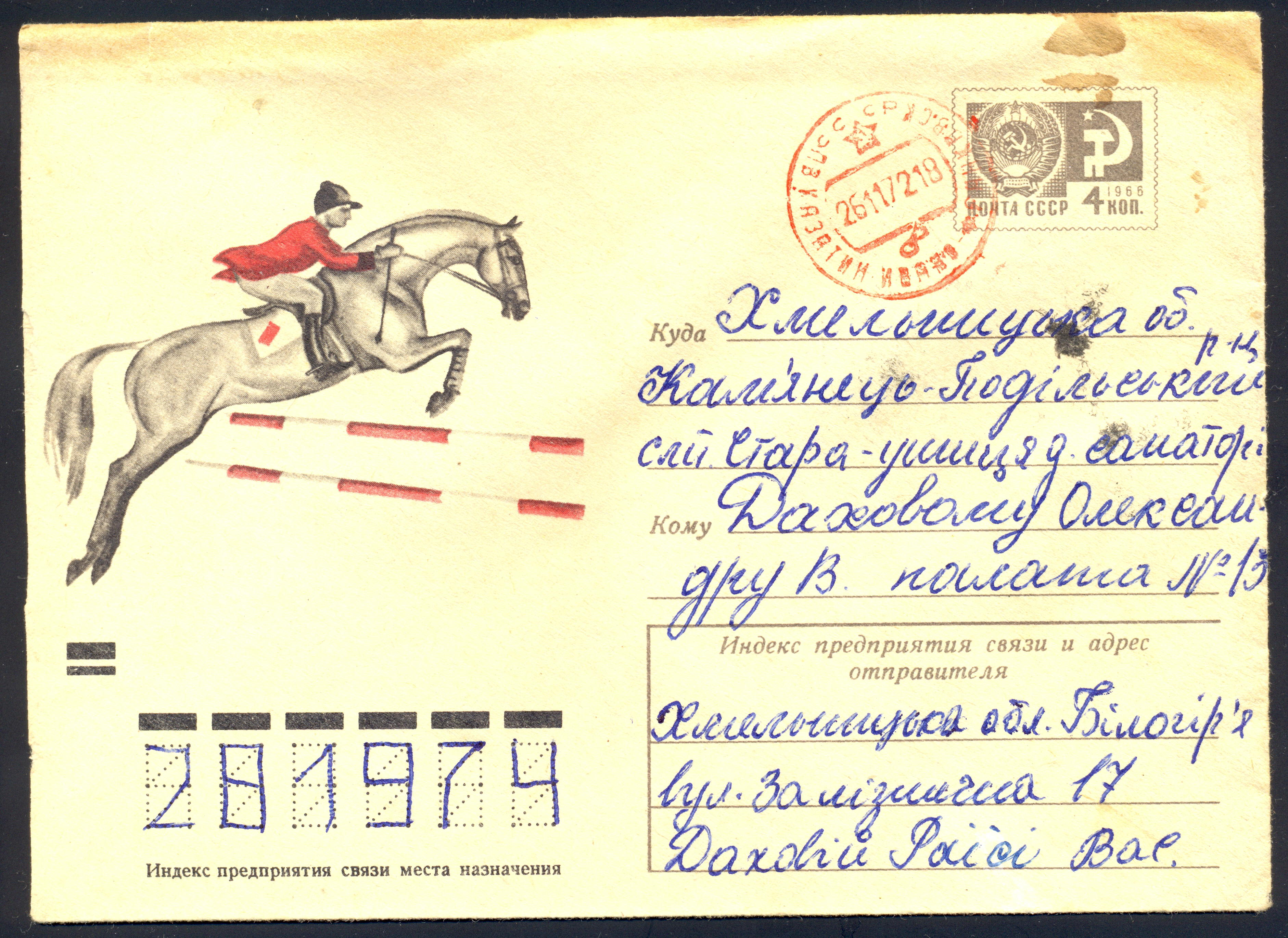 USSR stamped cover with postmark of TPO on the route Kazatin - Ivano-Frankovsk (Ukraine), November 26, 1972.